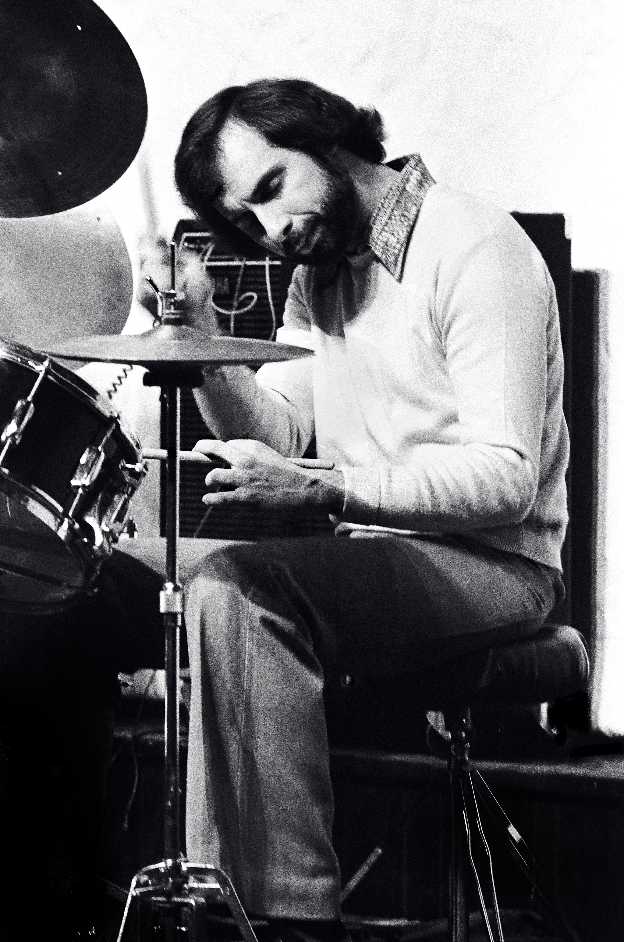 Joe LaBarbera in 1978 w/ the Phill Woods Sextet